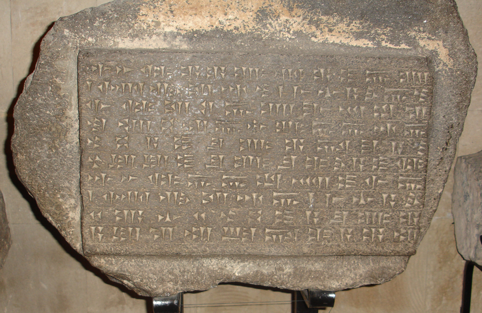 Modified version of wikipedia free image DSC01217.jpg. (Urartian tablet of Argishti I)